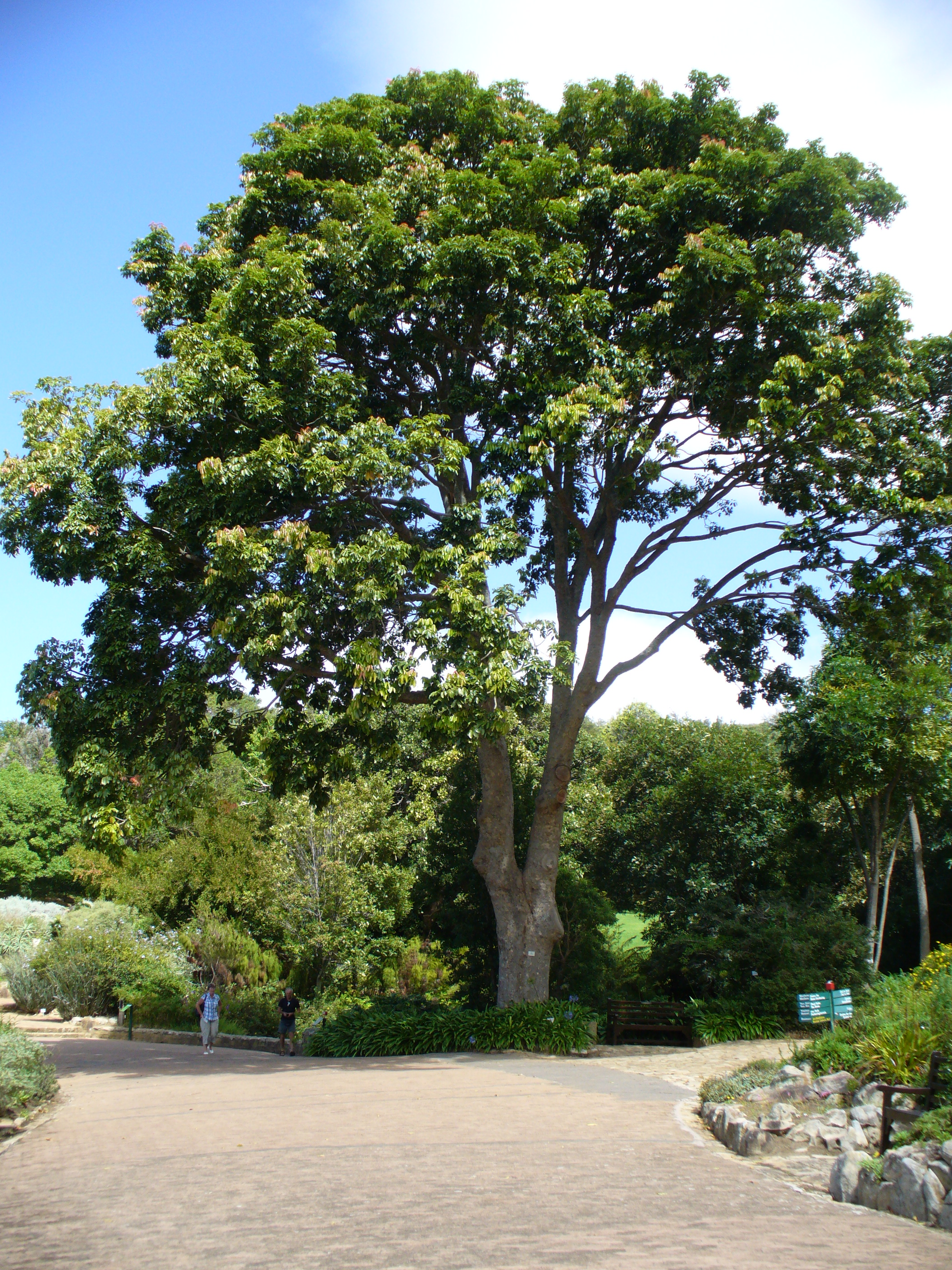 Red mahogany at Kirstenbosch Botanical Garden in Cape Town